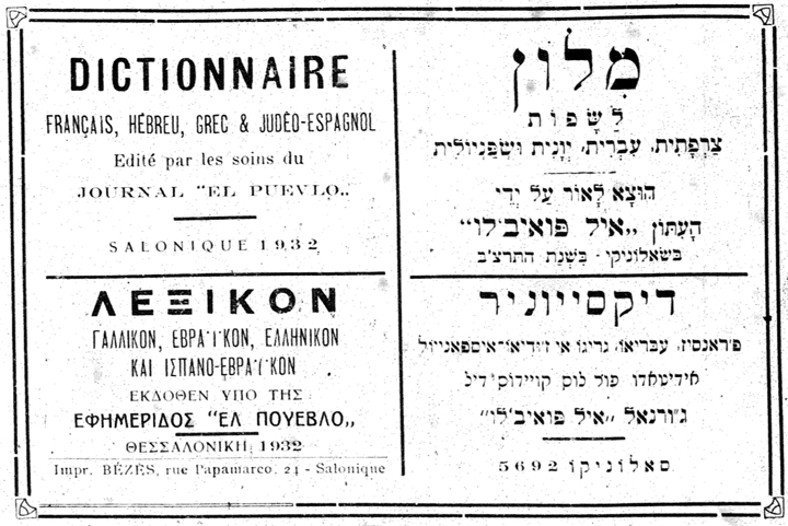 Puevlo Newspaper Document